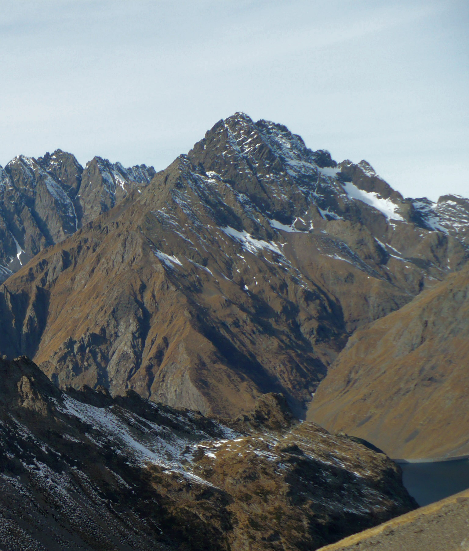 Pizzo Coca seen from Val Cerviera